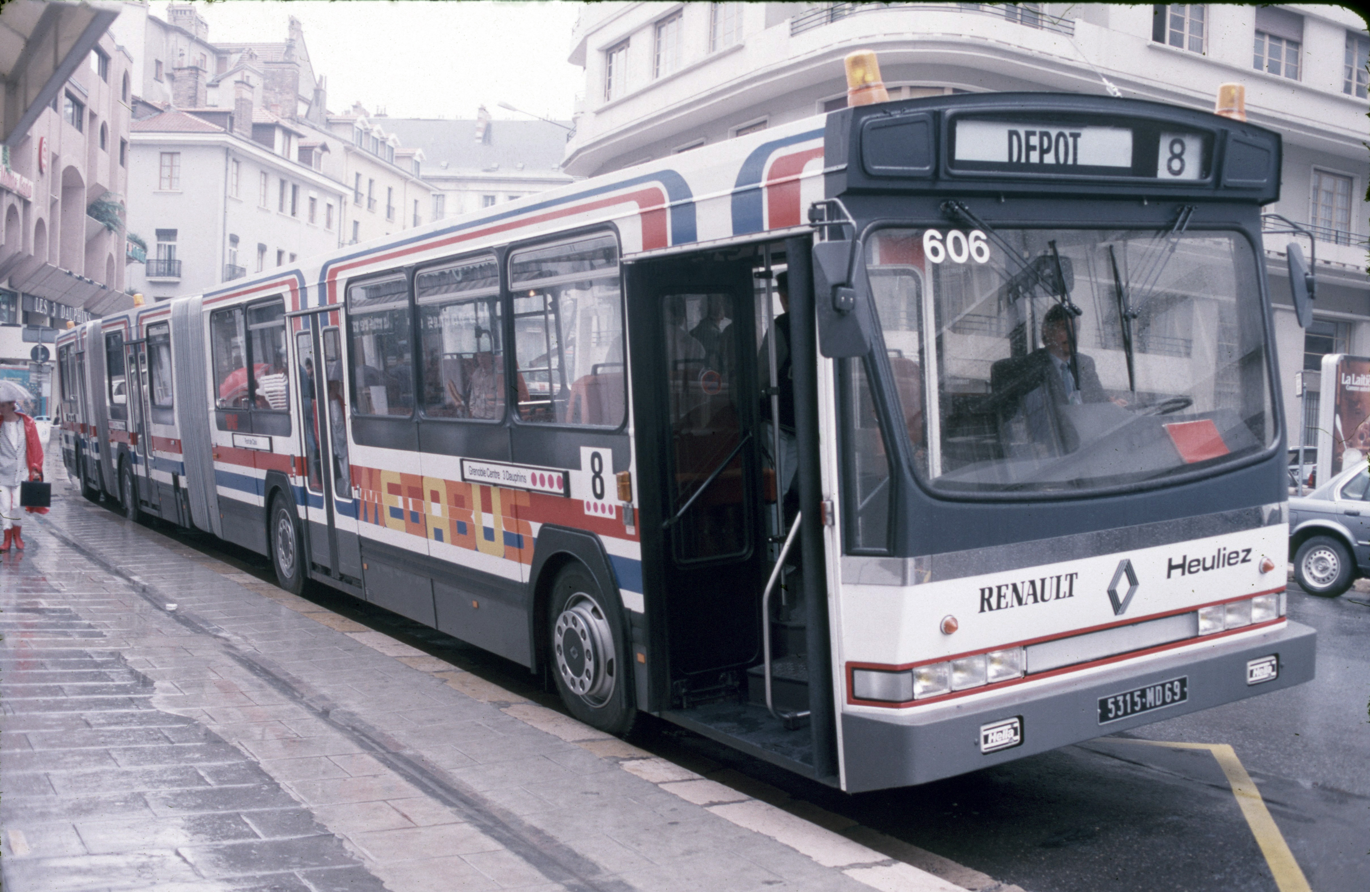 A Renault Mégabus (RVI, as loan for trials at the SÉMITAG) parked at the call Trois Dauphins (Grenoble, France) on June 19, 1987.